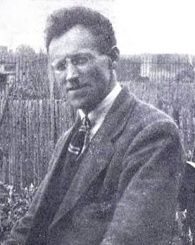 Eric Ernest Westbury (1871-1939), English chess problemist and player from Warwick.